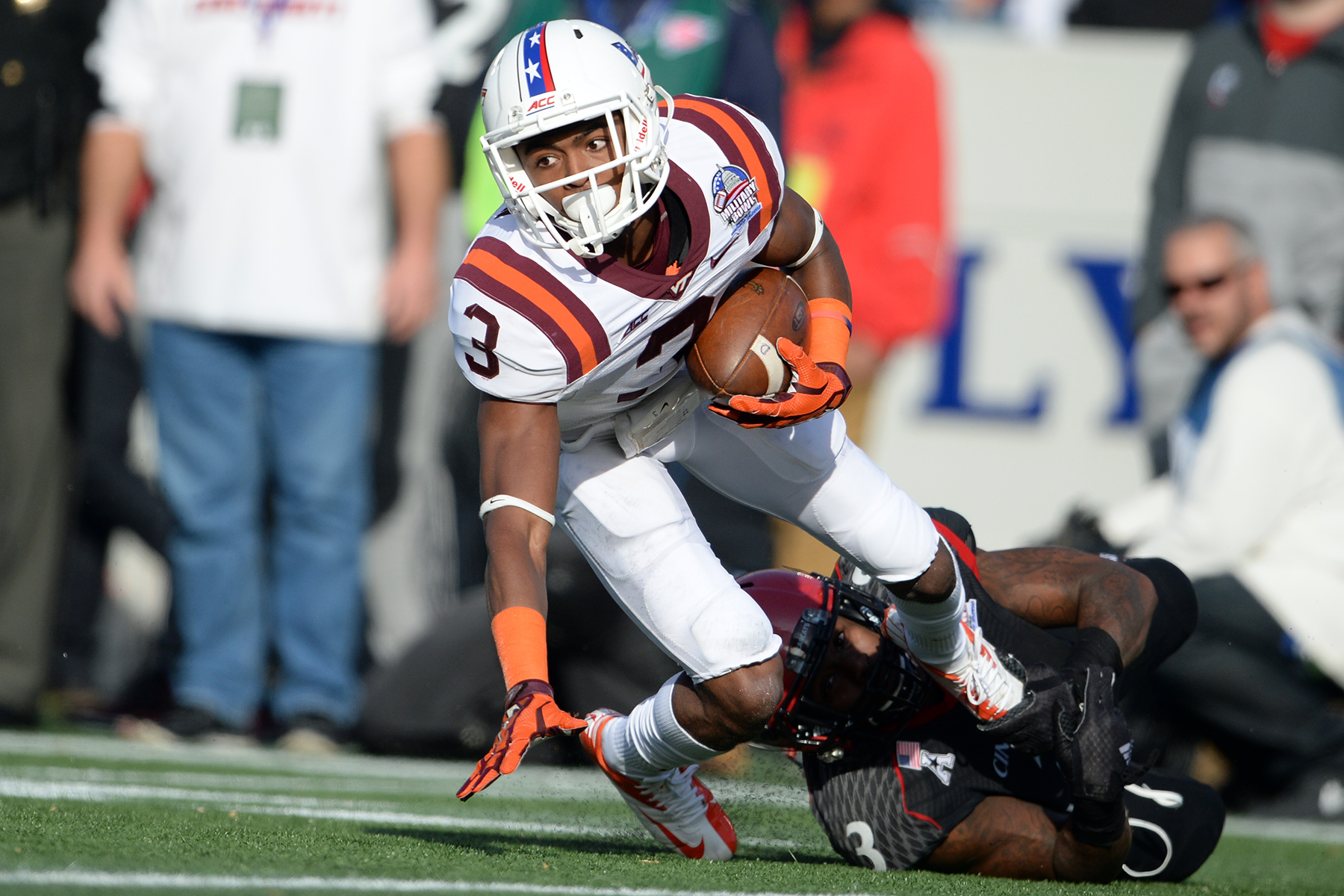 Cincinnati’s Virginia Tech’s Howard Wilder catches Virginia Tech’s Greg Stroman by the shoe during the second quarter of the Military Bowl 2014 at Navy-Marine Corps Memorial Stadium in Annapolis, Md. Dec. 27, 2014. Virginia Tech beat Cincinnati 33-17. (DoD News photo by EJ Hersom)